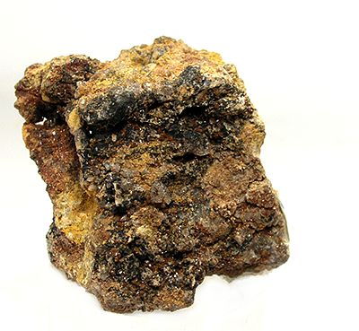 Bismite, Pucherite Locality: Pucher Shaft, Wolfgang Maaßen Mine field, Schneeberg District, Erzgebirge, Saxony, Germany (Locality at ) Size: large cabinet, 4.2 x 3.5 x 1.6 cm Pucherite on Bismite A VERY RICH SPECIMEN for the species, which comes at its best from this old, long-defunct type locality. This piece features dozens of bright crystals EYE-VISIBLE and striking red against matrix, to almost 1 mm in size. It is esoteric, I admit, but a very significant little specimen notwithstanding.